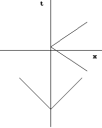 Tilted light cone